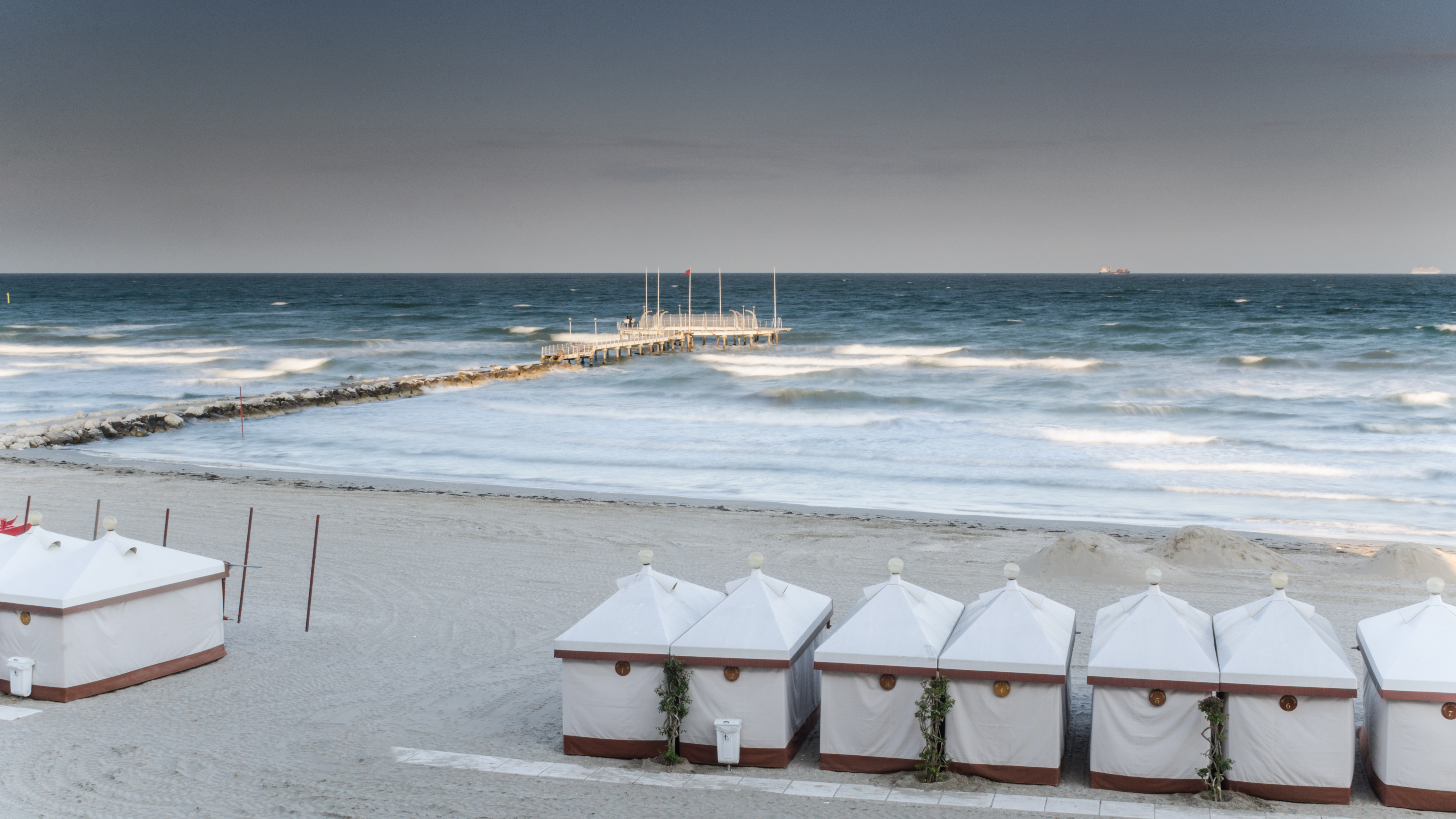 Beach Cabins in front of Hotel Excelsior (Lido di Venezia)